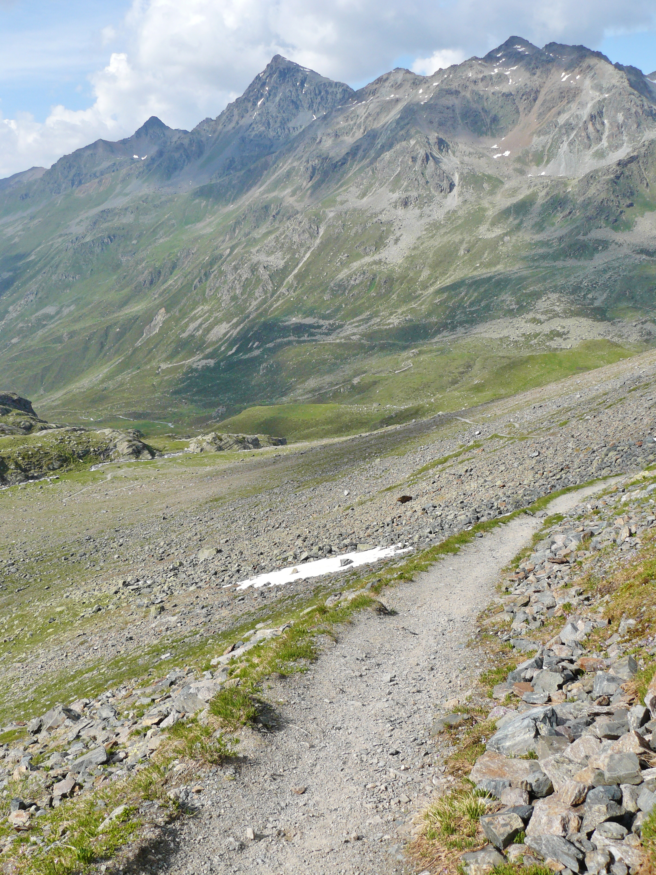 View from Scalettapass down to Dürrboden